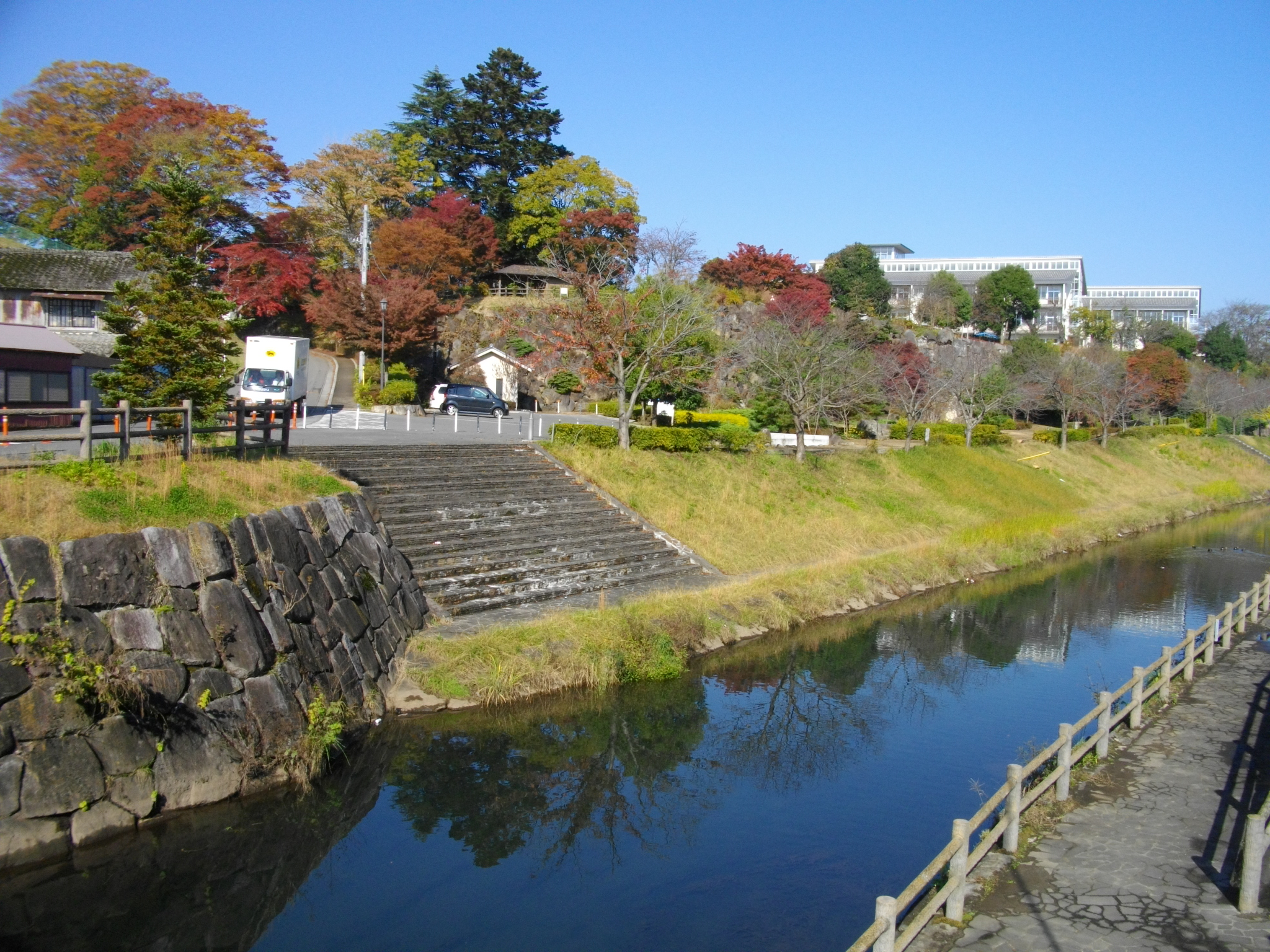 Ruins of Moka Castle